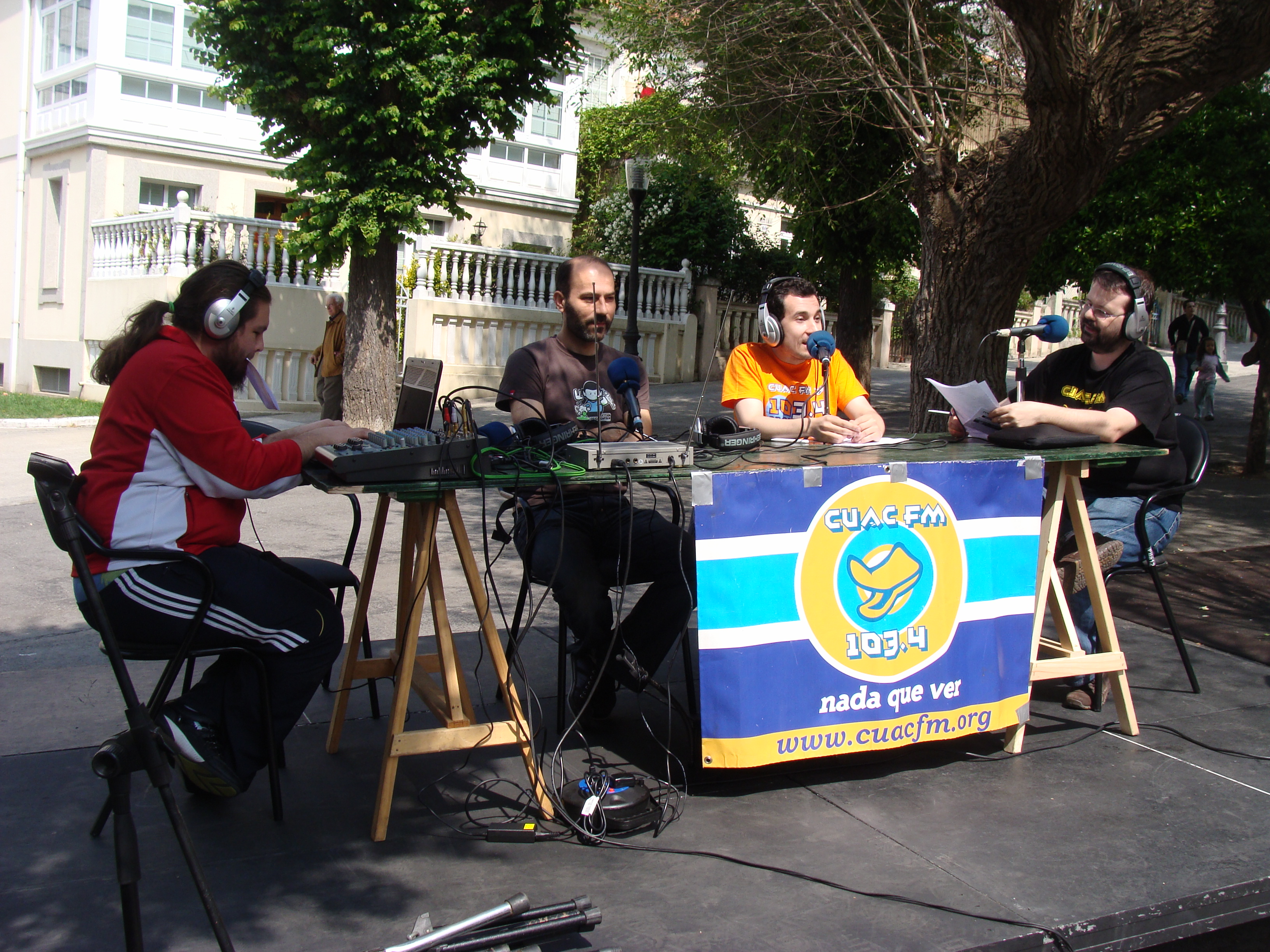 Live broadcast of Ar de Coruña (Cuac FM), in the I Romaría Asociativa, in Parque de Marte (Corunna, Galicia, Spain)